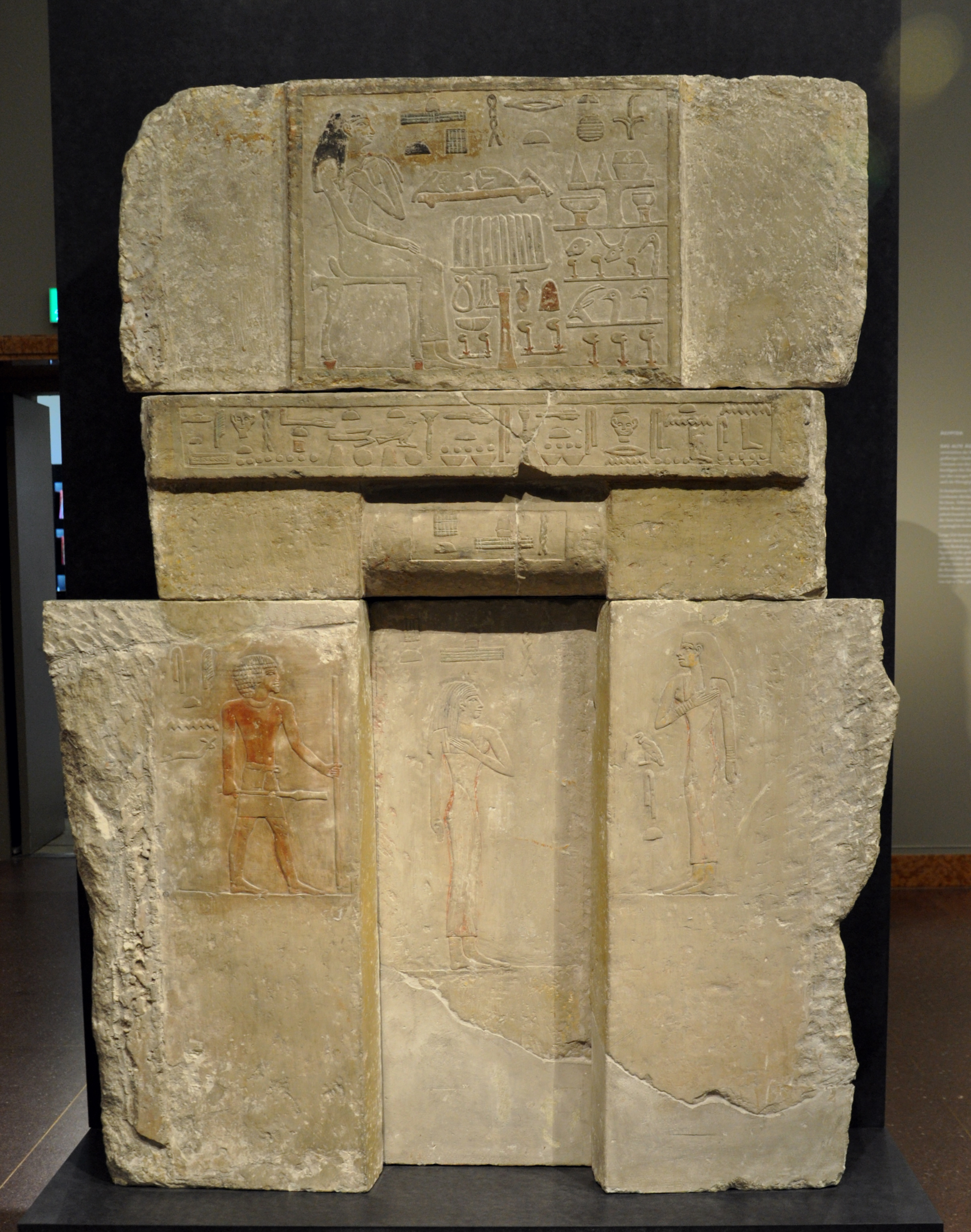 False door of Hetepet. Egypt, Giza (?), Old Kingdom, 5th–6th dynasty, c. 2400 BC; limestone; Museum: Liebieghaus, Frankfurt am Main, Inv. No. 722